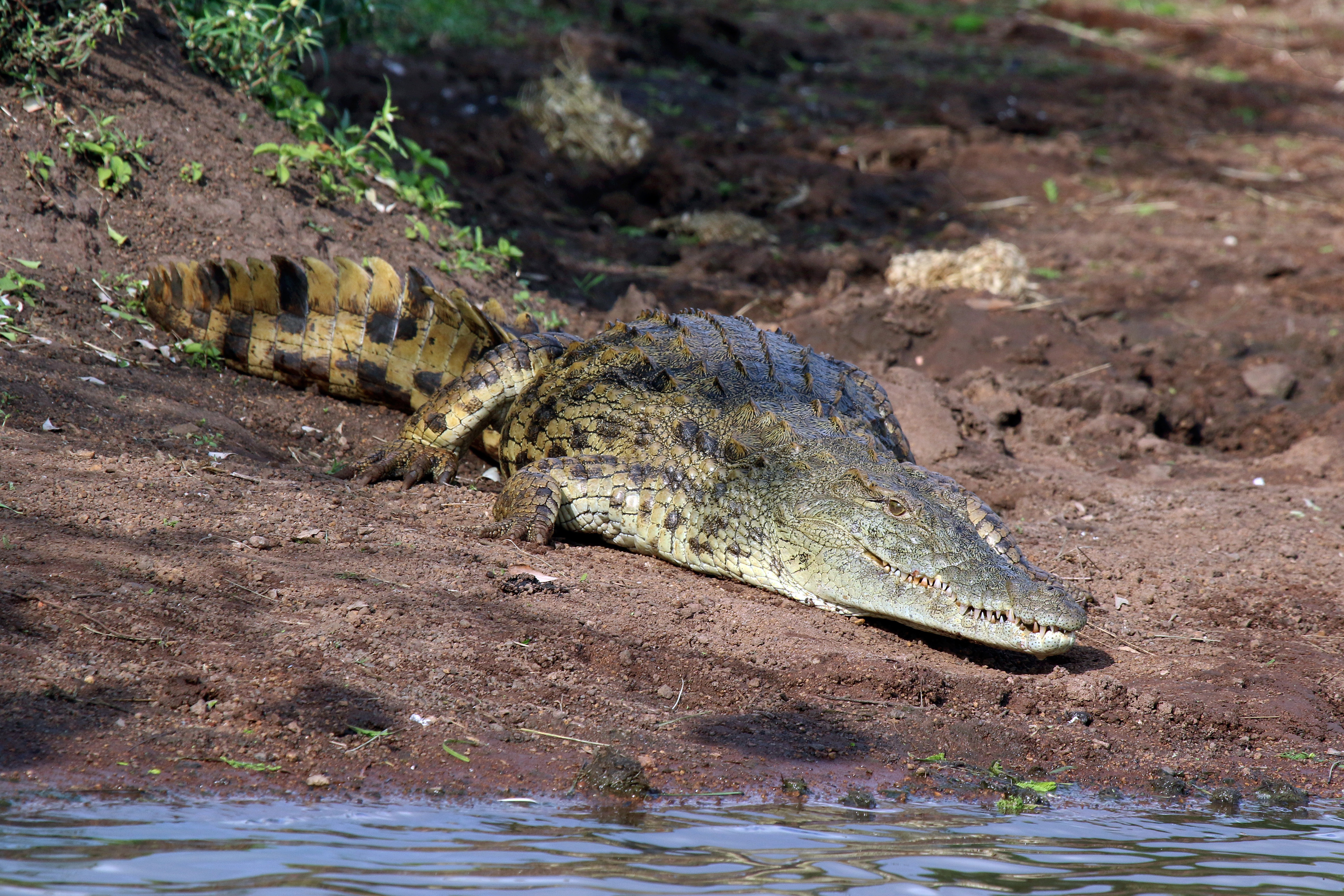 Nile crocodile (Crocodylus niloticus), Phinda Private Game Reserve, KwaZulu Natal, South Africa